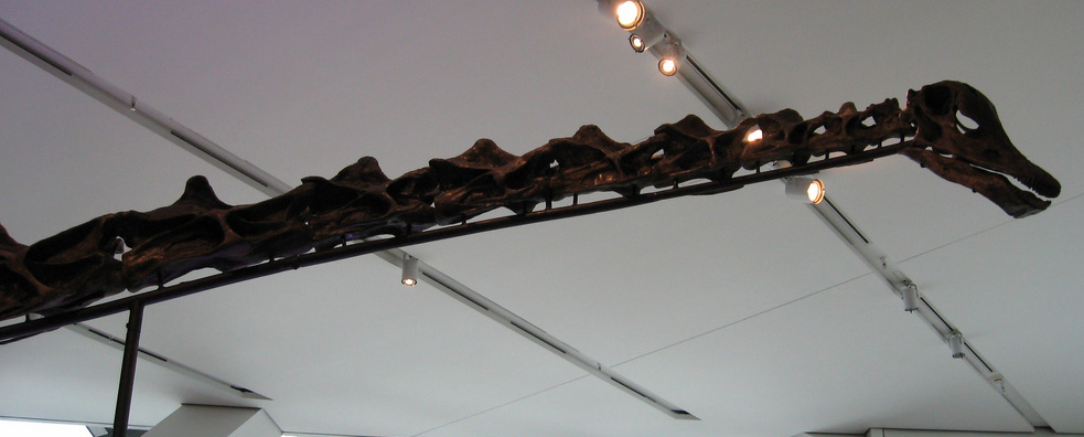 Barosaurus head and neck, Royal Ontario Museum.